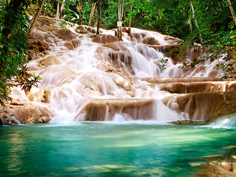 Falmouth, Jamaica adventure tourism